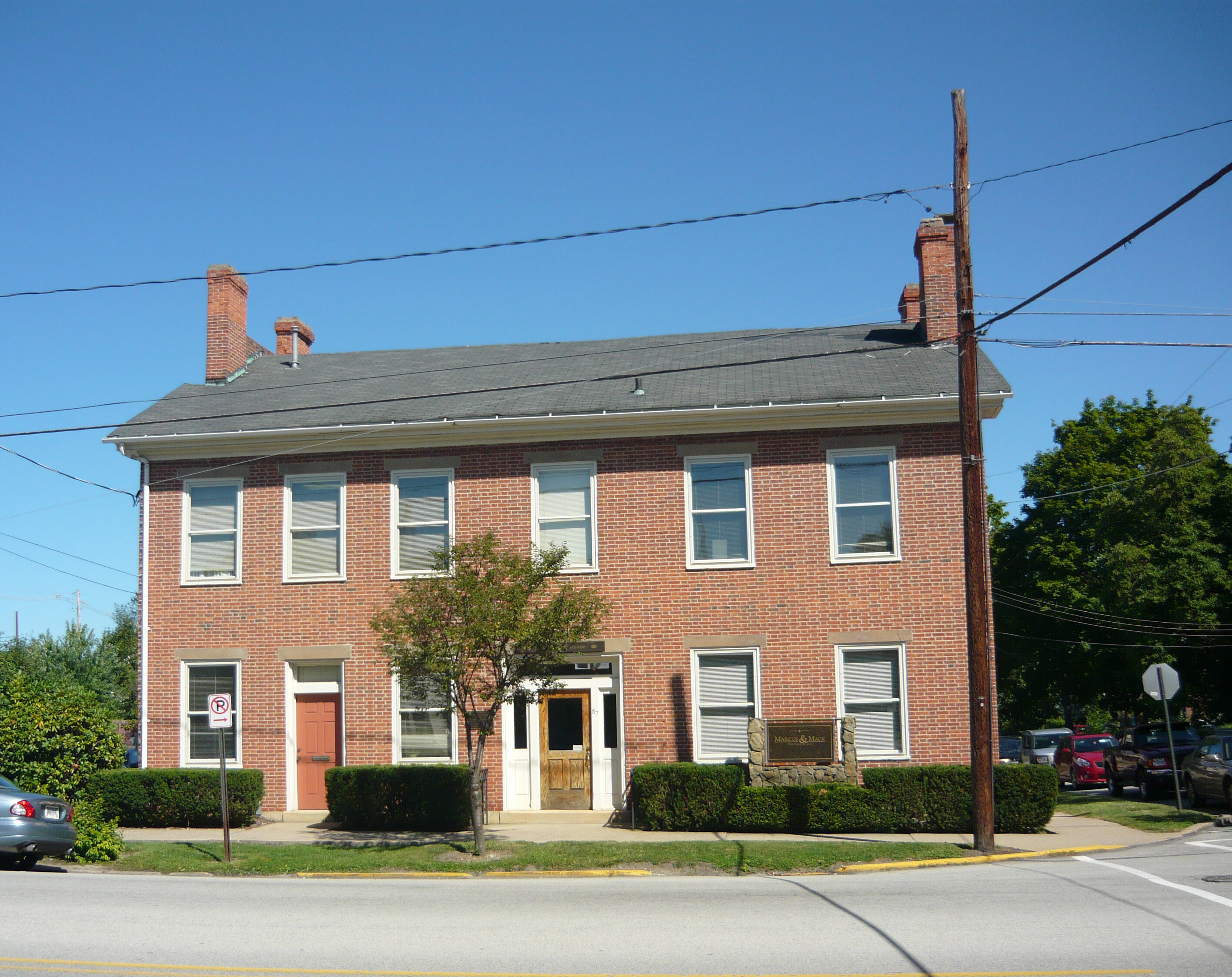 The James Mitchell House, located at 57 South Sixth Street, Indiana, Pennsylvania, United States. Built in 1849, it is listed on the National Register of Historic Places.